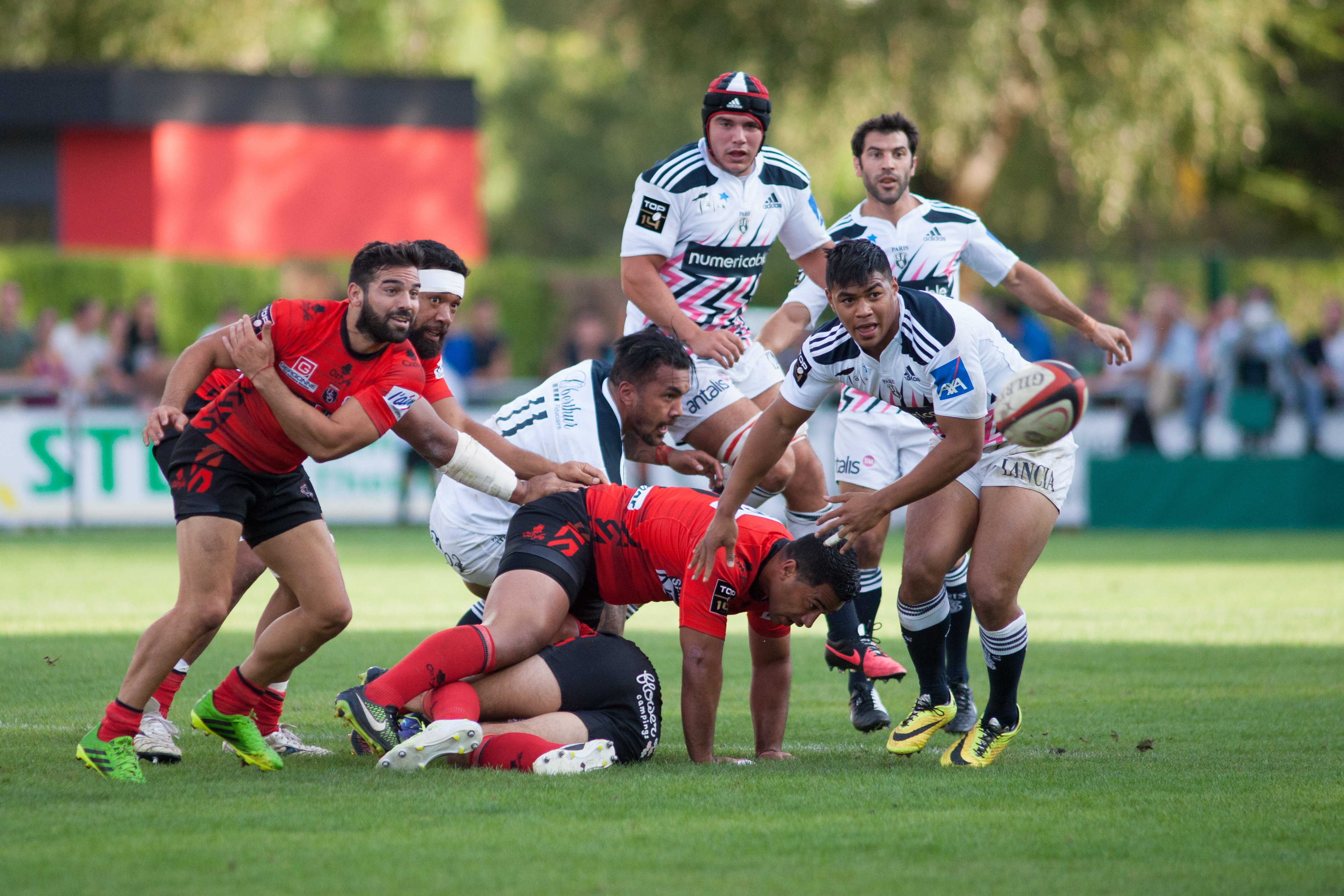 The making of this document was supported by Wikimedia CH.(Submit your project!) For all the files concerned, please see the category Supported by Wikimedia CH. US Oyonnax vs. Stade français, 30th August 2014